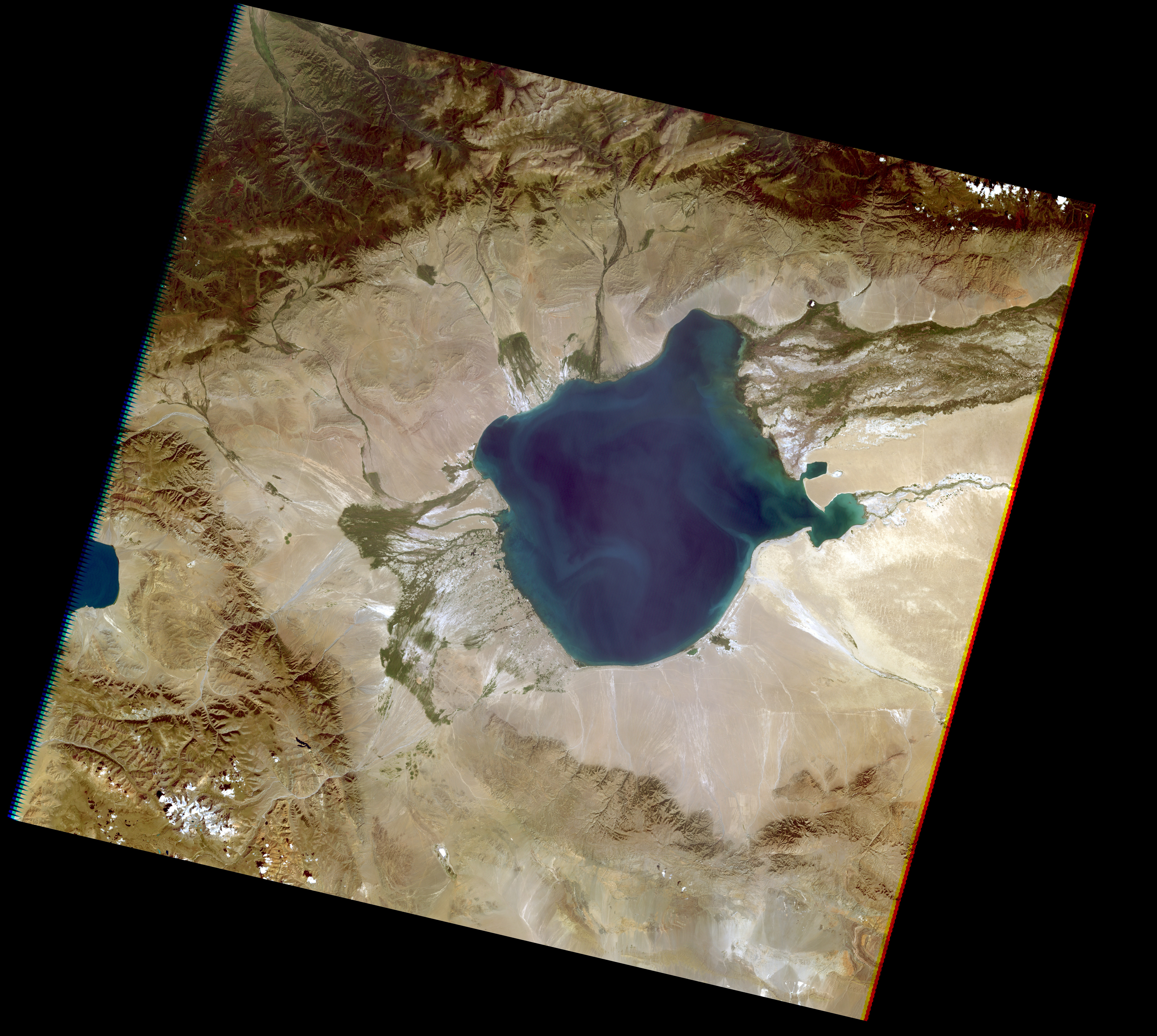 Uvs Nuur Hollow and Uvs Nuur Lake in the West Mongolia and South Syberia, Russia, Landsat-7 near natural colors image, 30 m resolution